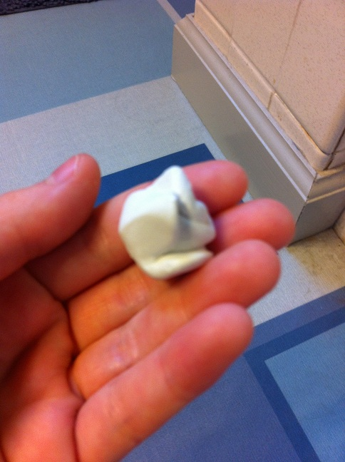 Sugrua